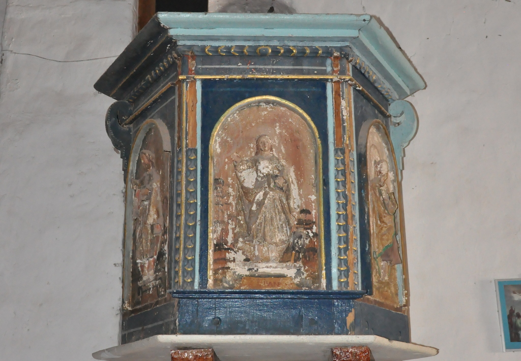 San Martin de Tours Chapel, Codpa Village, Region de Arica y Parinacota